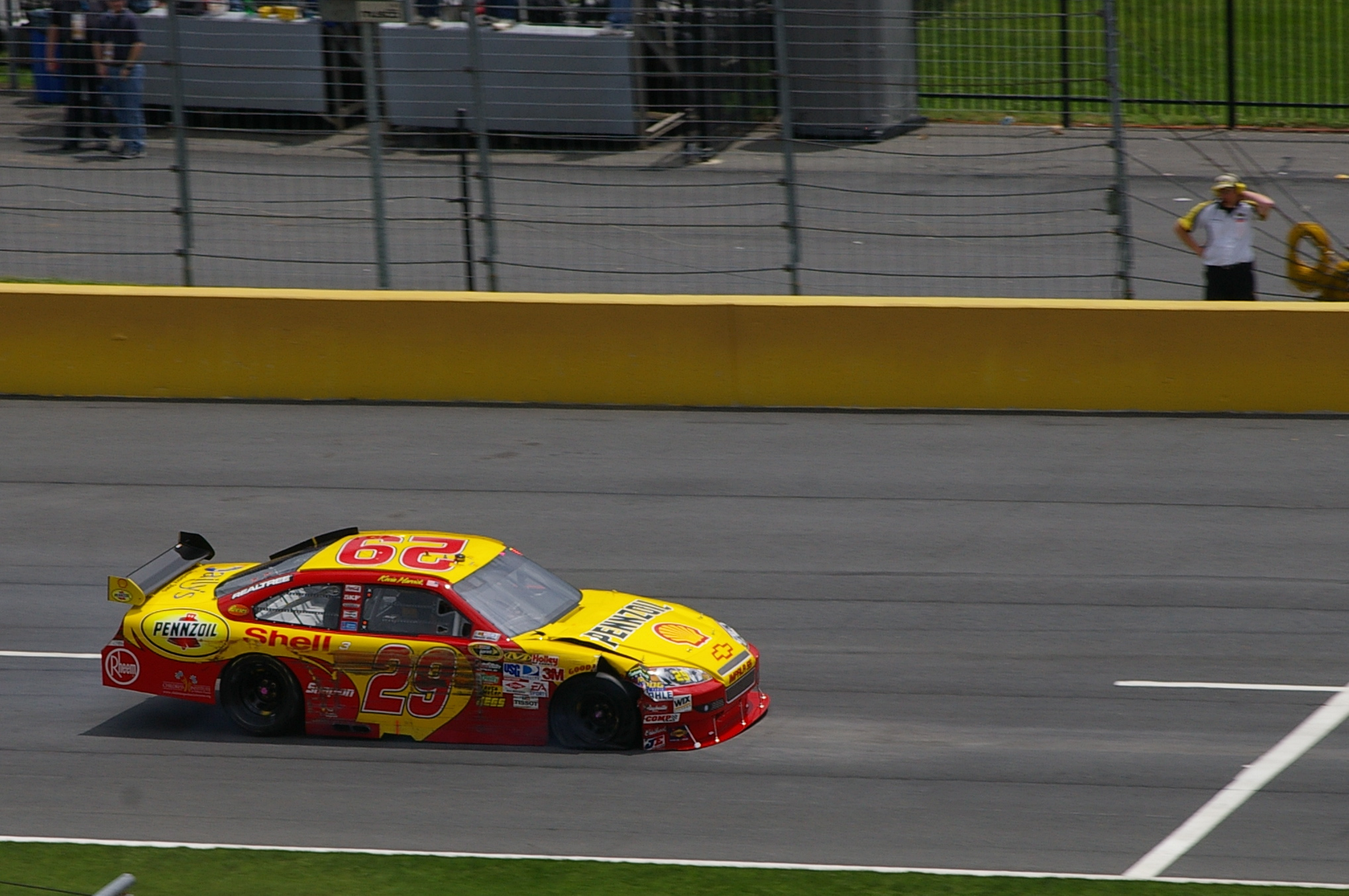 NASCAR driver Kevin Harvick driving down pit road in the 2009 Coca-Cola 600.